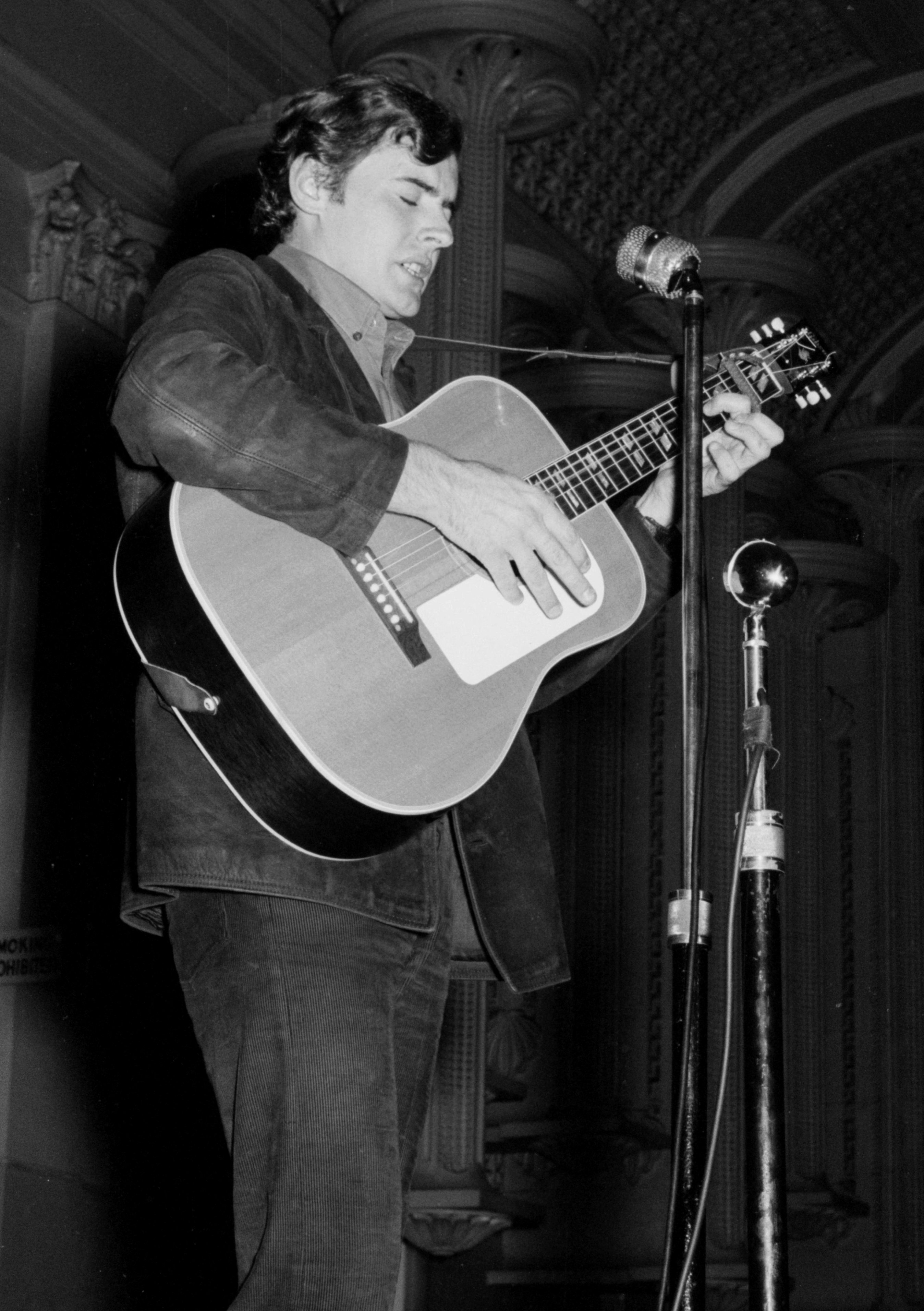 Gary Shearston (1939-2013), , Australian musician, at the SAFA Fundraiser, Paddington Town Hall, 21 January, 1965 - photograph from The Tribune (20703217680) - cropped version (original at